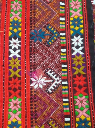 balochi doozi